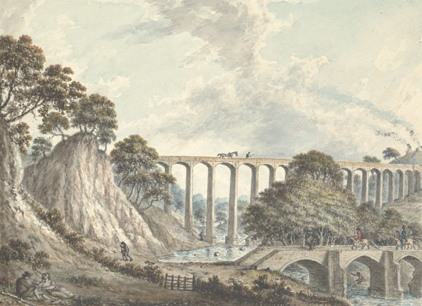 New bridge & aquaduct, Rhiwabon, c. 1795